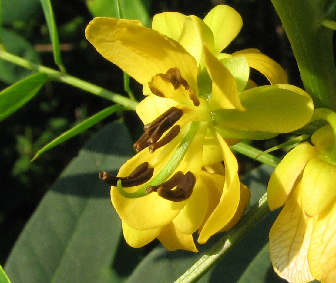 Senna flower, poricidal anthers. Pennypack Restoration Trust, Montgomery County, Pennsylvania, USA. August 23, 2013.